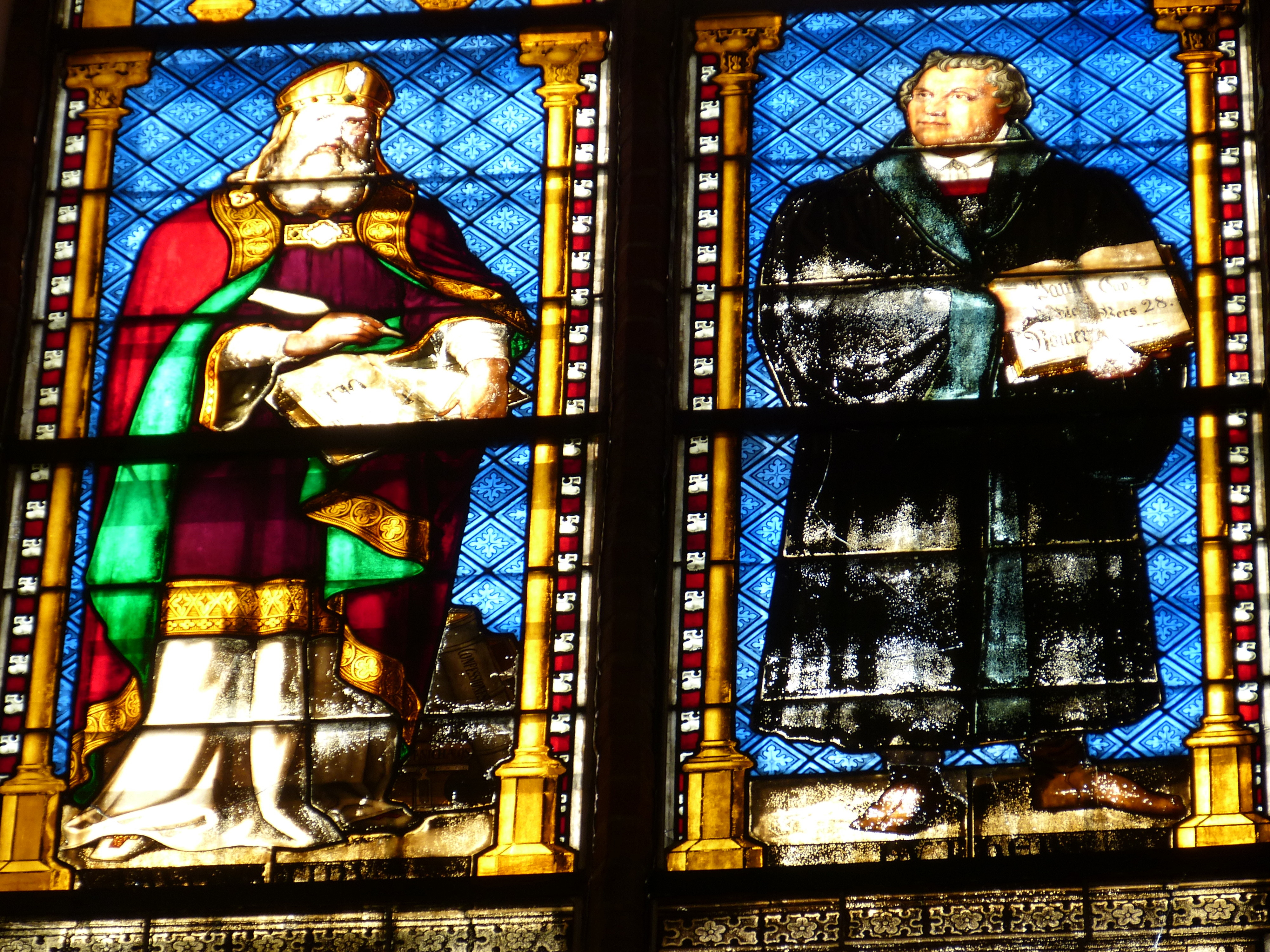 Dobbertin ( Mecklenburg ). Monastery church: Stained glass window ( 1866 ) by Gustav Stever ( drawing ) and Ernst Gillmeister ( glass works ), showing Saint Augustine and Martin Luther.